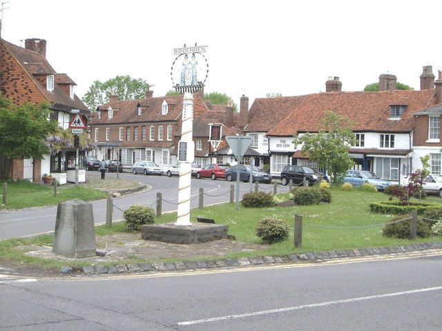 Biddenden. The village green with the Biddenden Maids sign, and the High Street, taken from the east side of the A262.